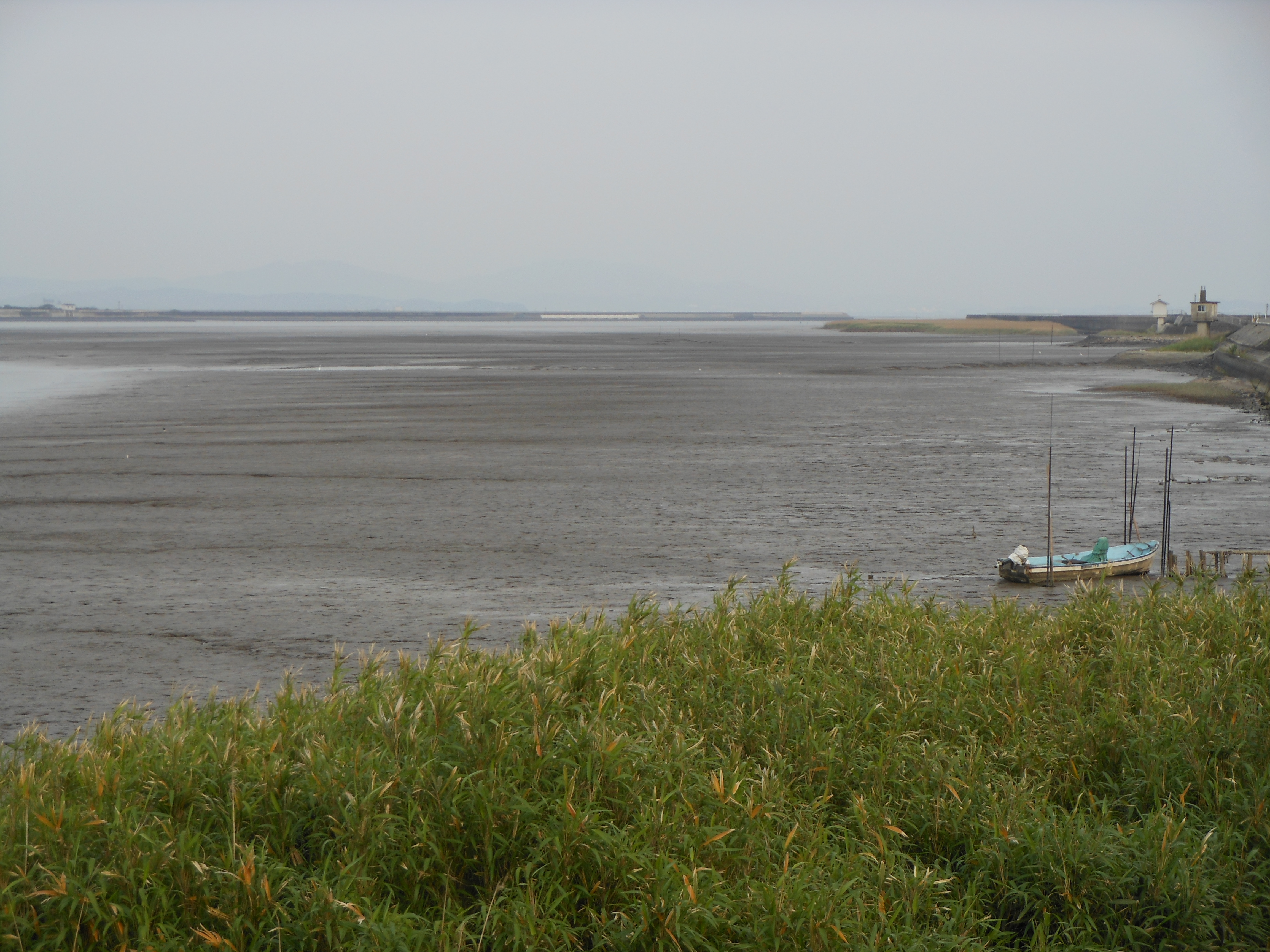 Mudbanks at Hayatsue River, taken from the right side, Kawasoe, Saga city, Saga prefecture.